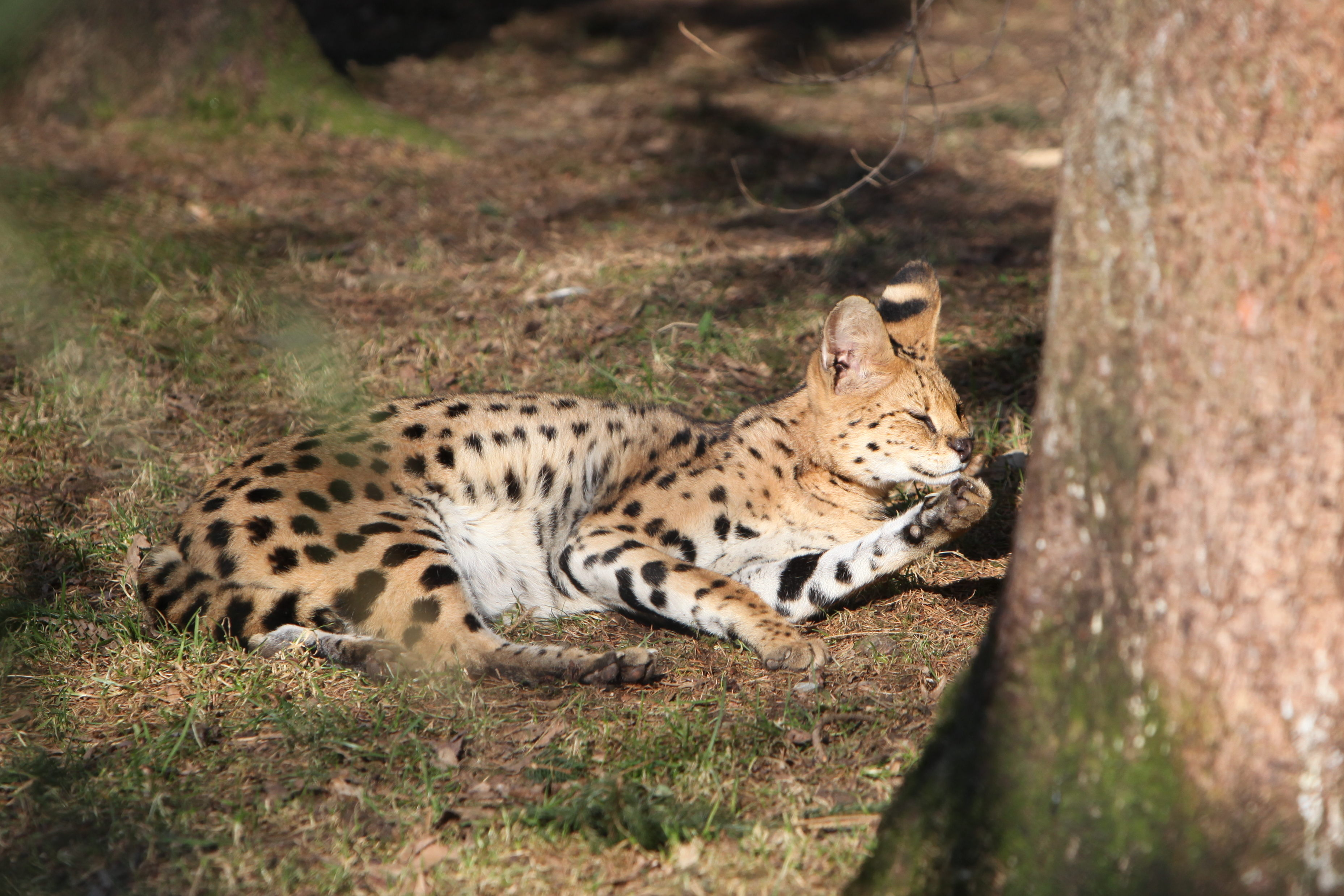 Leptailurus serval in captivity.